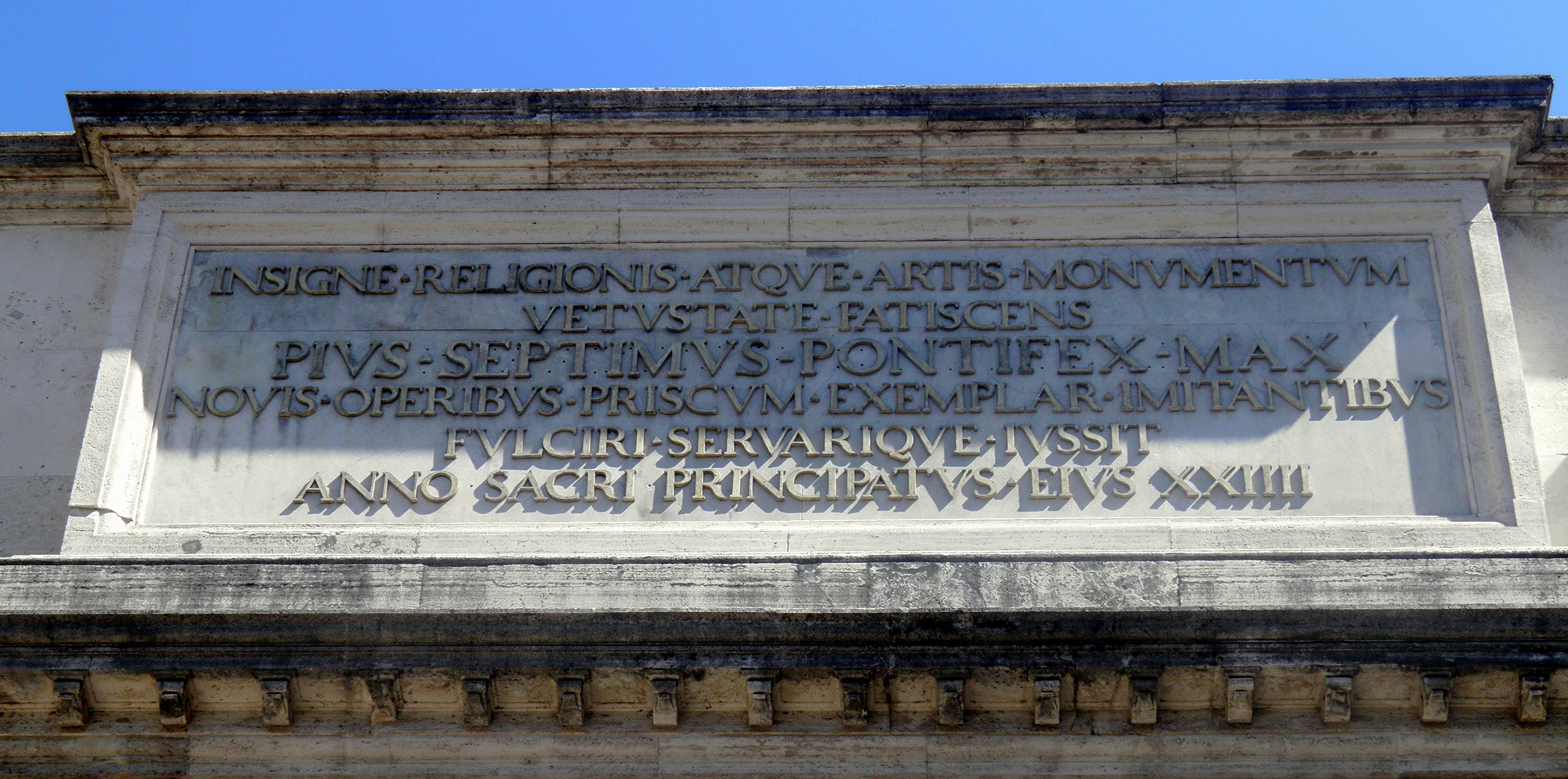 Translated, the inscription from 1821 reads: “(This) monument, remarkable in terms of both religion and art, had weakened from age. Pius VII, Supreme Pontiff, by new works on the model of the ancient exemplar, ordered it reinforced and preserved. In the 24th year of his sacred rule.”